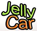 Jelly Car logo.